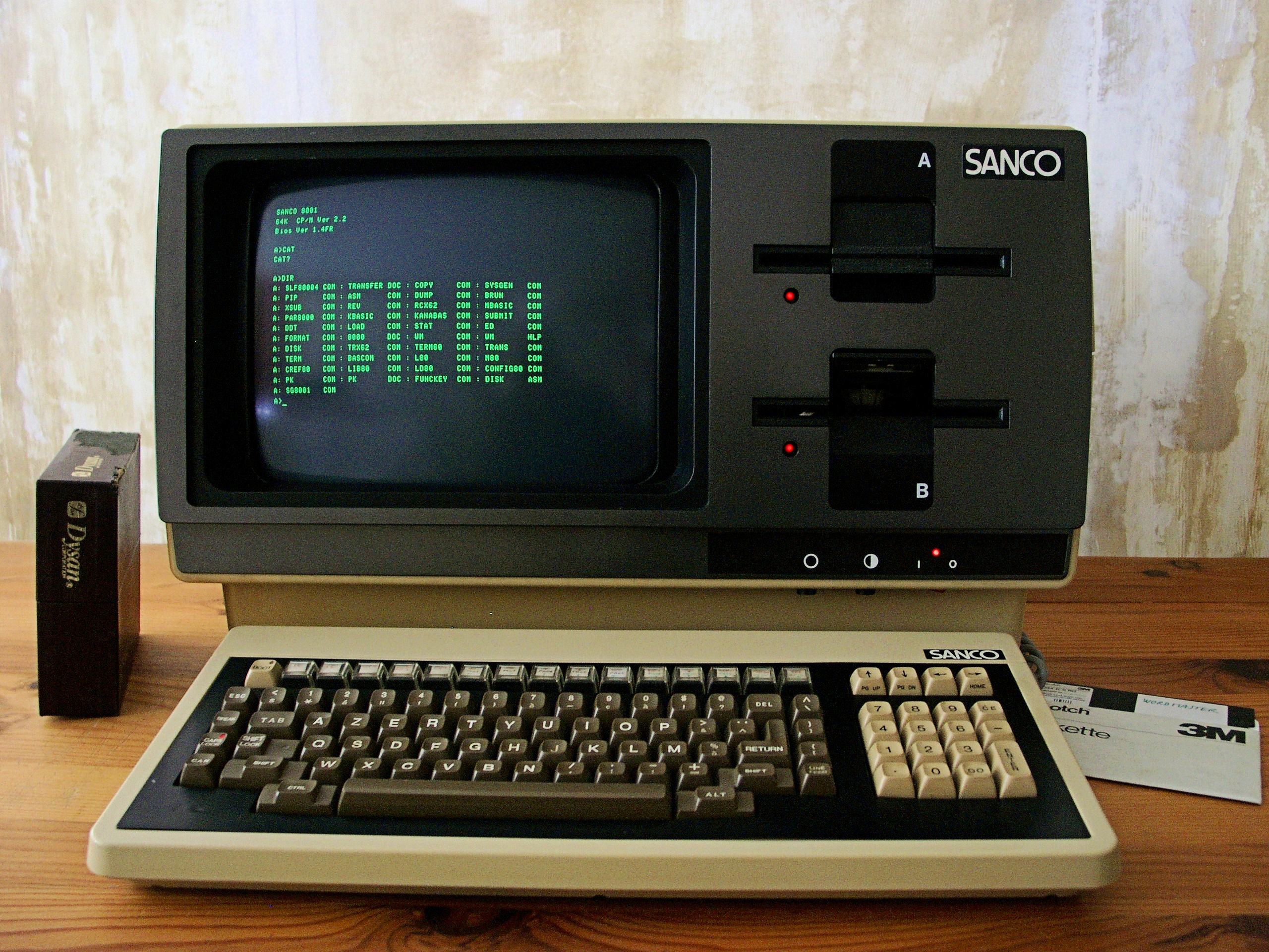 Sanco 8001 computer, running under CP/M 2.2 (1982). CPU Z80, b&w, 64 kb RAM, 4 kb ROM. Two 5.25-inch floppy drives.